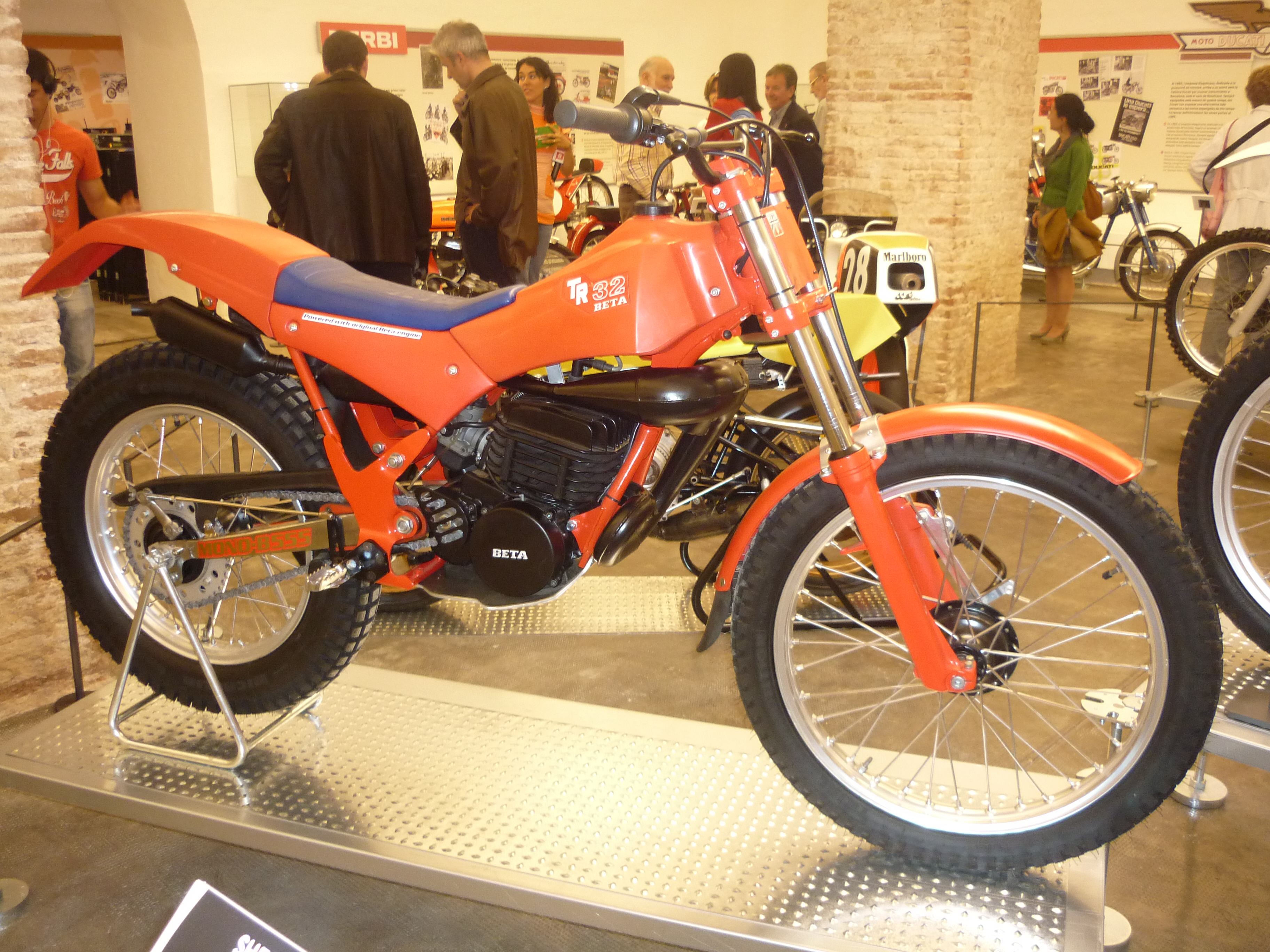 Beta TR-32 240cc 1981, developed by Pere Ollé in collaboration with "Beta Trueba" in Esparreguera (Catalonia).Museu de la Moto de Barcelona (Catalonia).